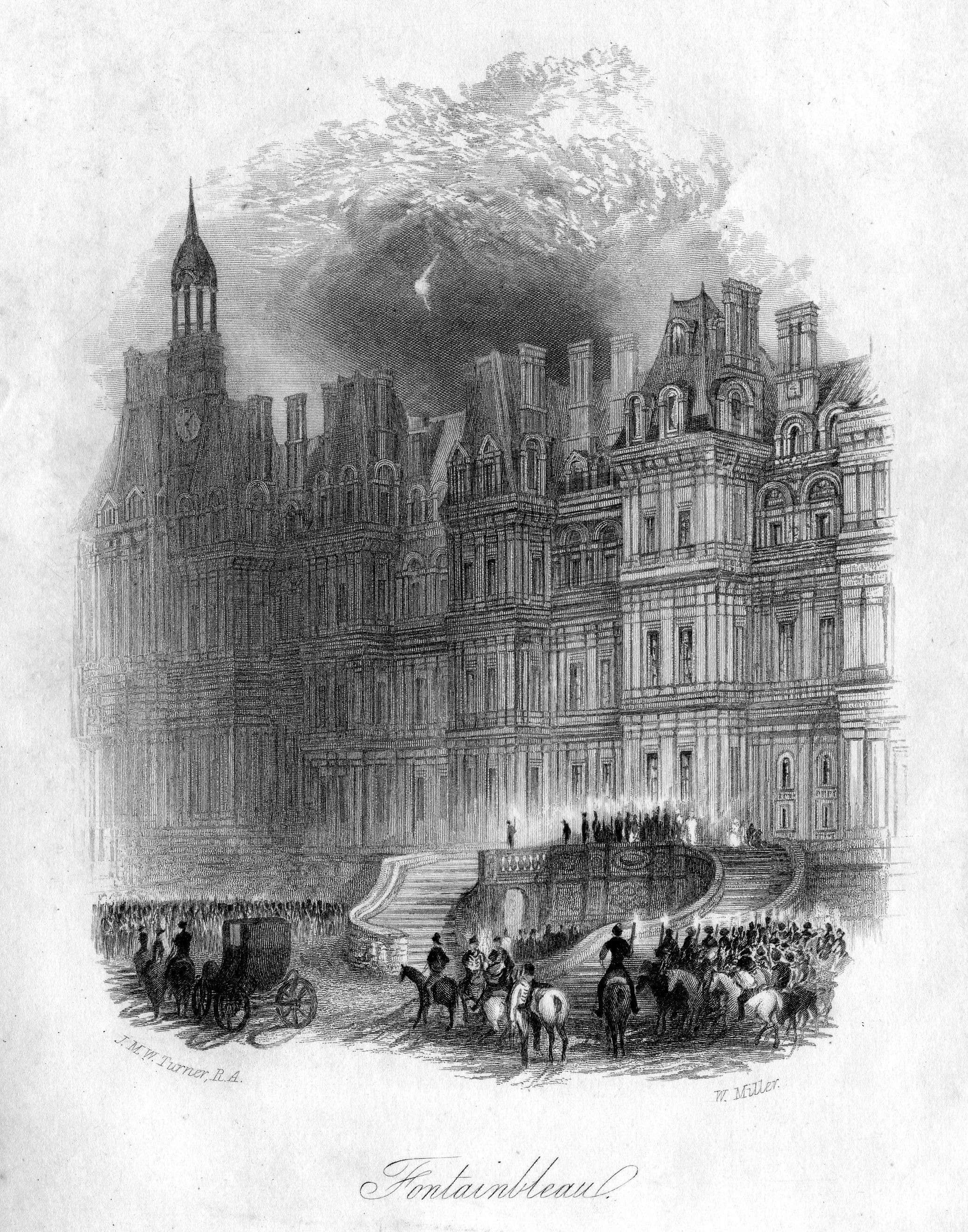 Fontainebleau (Rawlinson 538) engraving by William Miller after Turner, published in The Miscellaneous Prose Works of Sir Walter Scott, Bart. Embellished with Portraits, Frontispieces, Vignette Titles and Maps. The Designs of the Landscapes from Real Scenes by J.M.W. Turner, R.A.. Edinburgh: Robert Cadell, Edinburgh; Whitaker, Arnot, and Company, London; John Cumming, Dublin 1834 - 1836